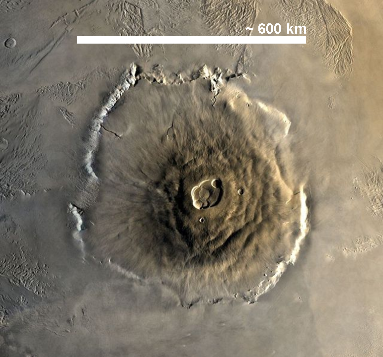 Olympus Mons, Mars. With black scale in km.